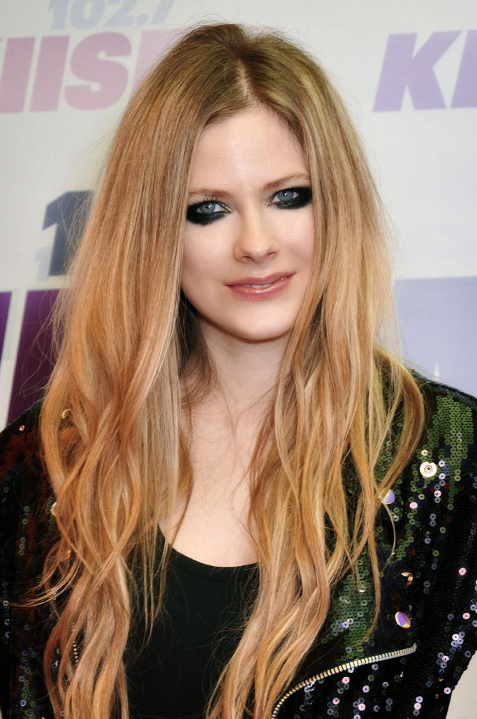 Avril Lavigne, Carson, California on May 11, 2013 - Photo by Glenn Francis of